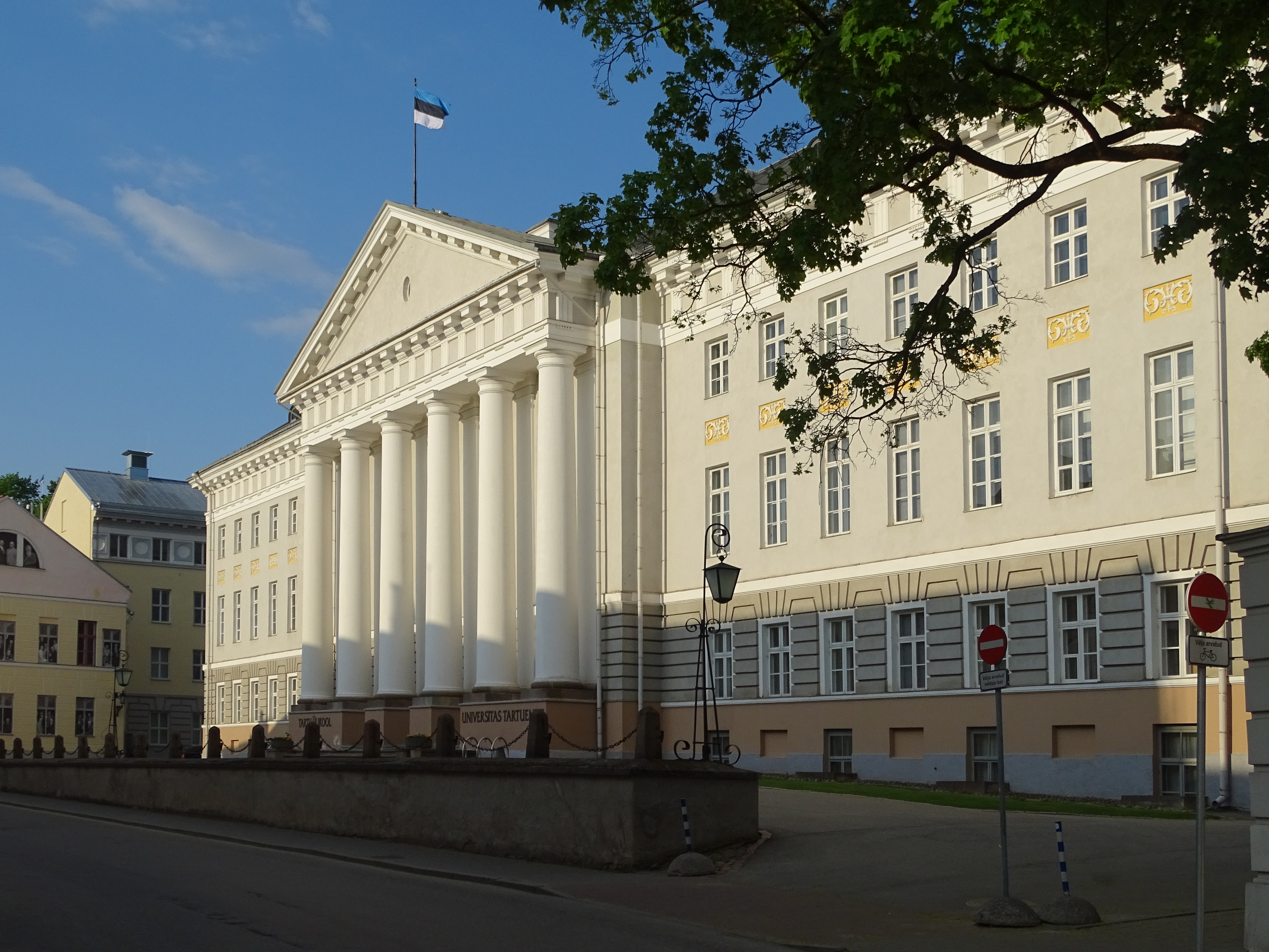 The main building of Tartü University, Estonia